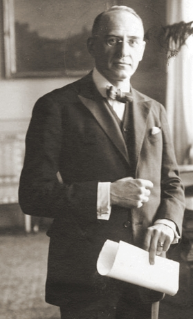 Tadeusz Grabowski (1881-1975) – Polish literary historian and diplomat